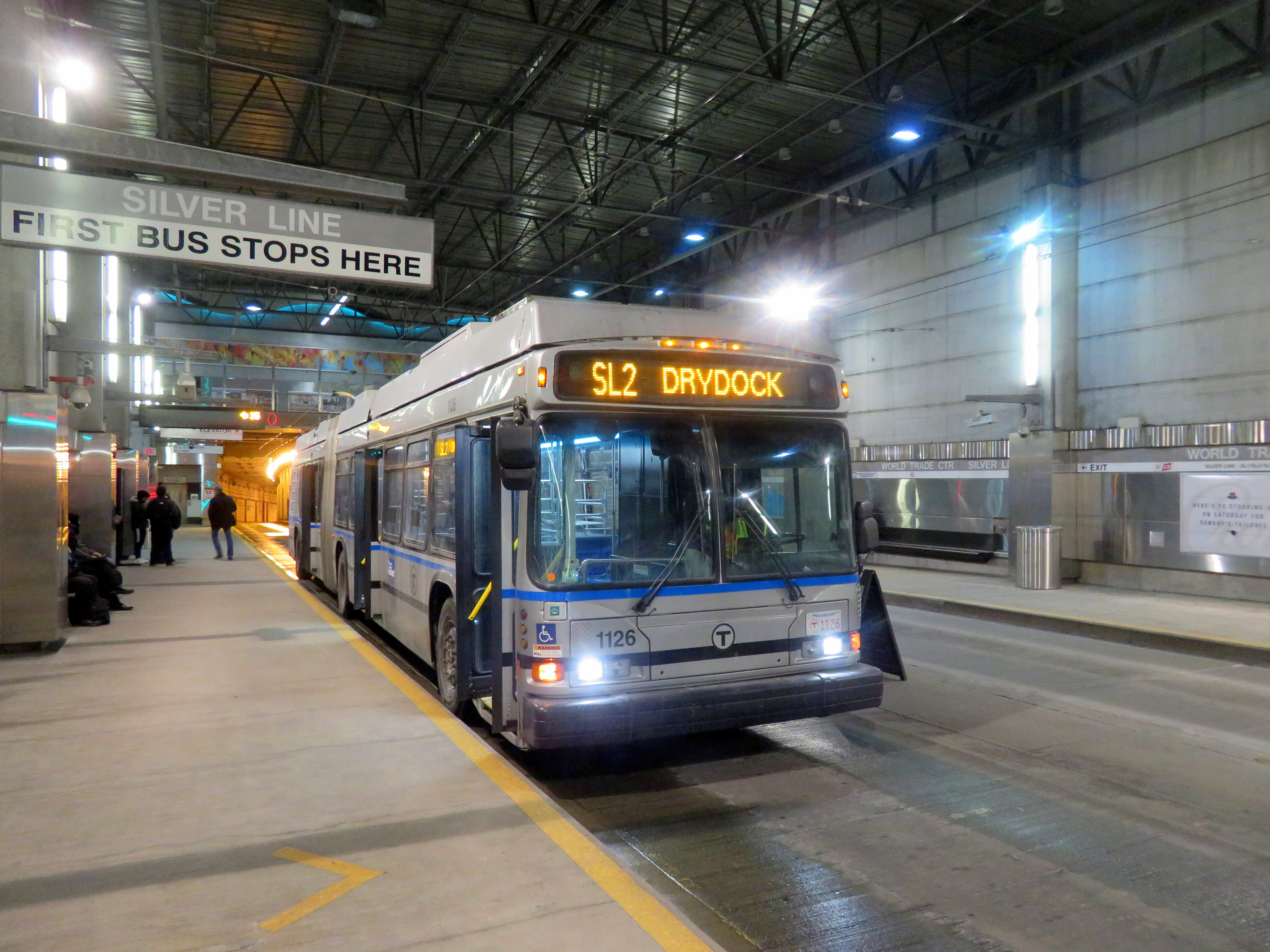 An outbound route SL2 bus at World Trade Center station in December 2019